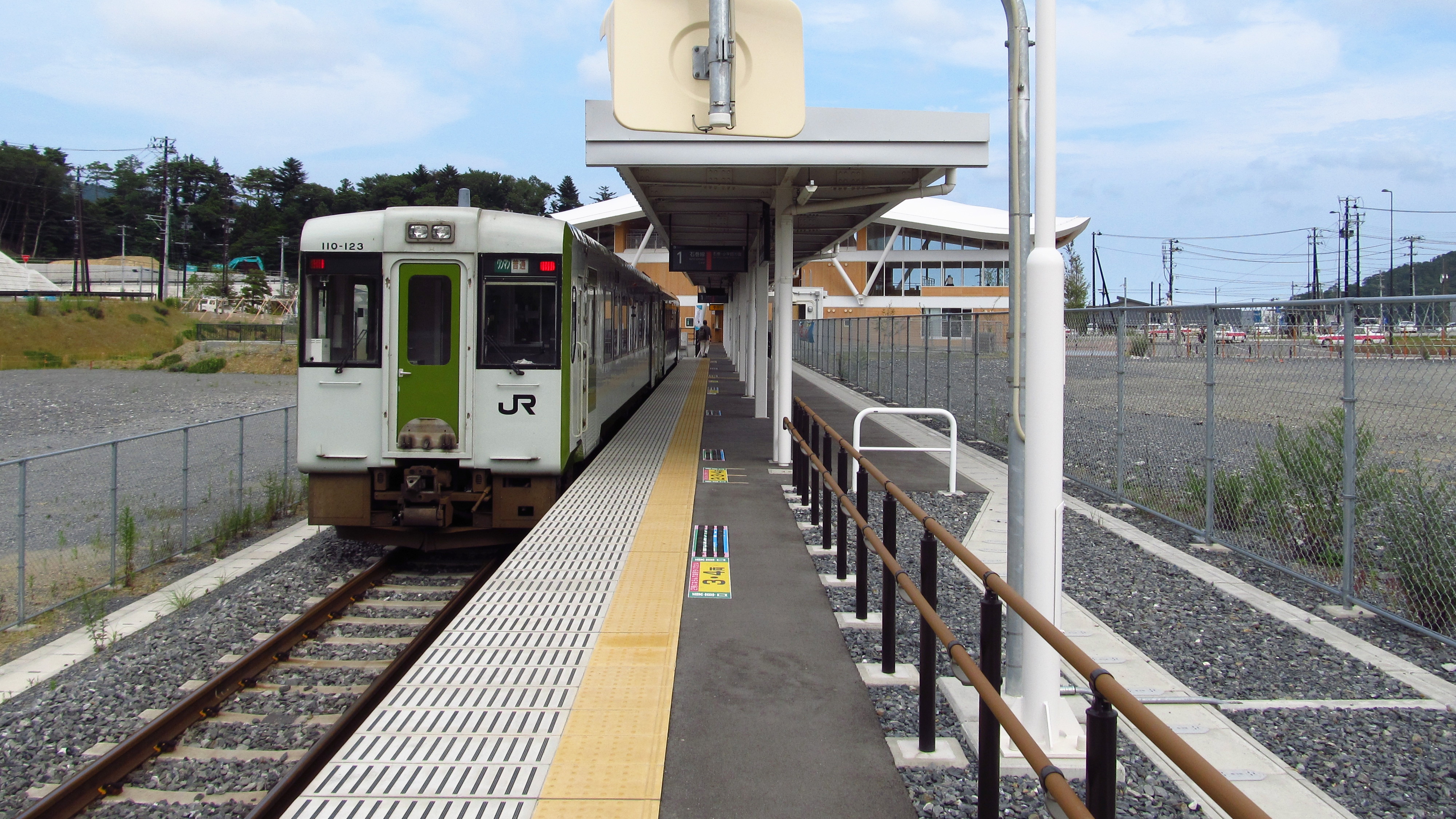 The platform at Onagawa Station on the Ishinomaki Line in Onagawa town, Miyagi Prefecture, Japan